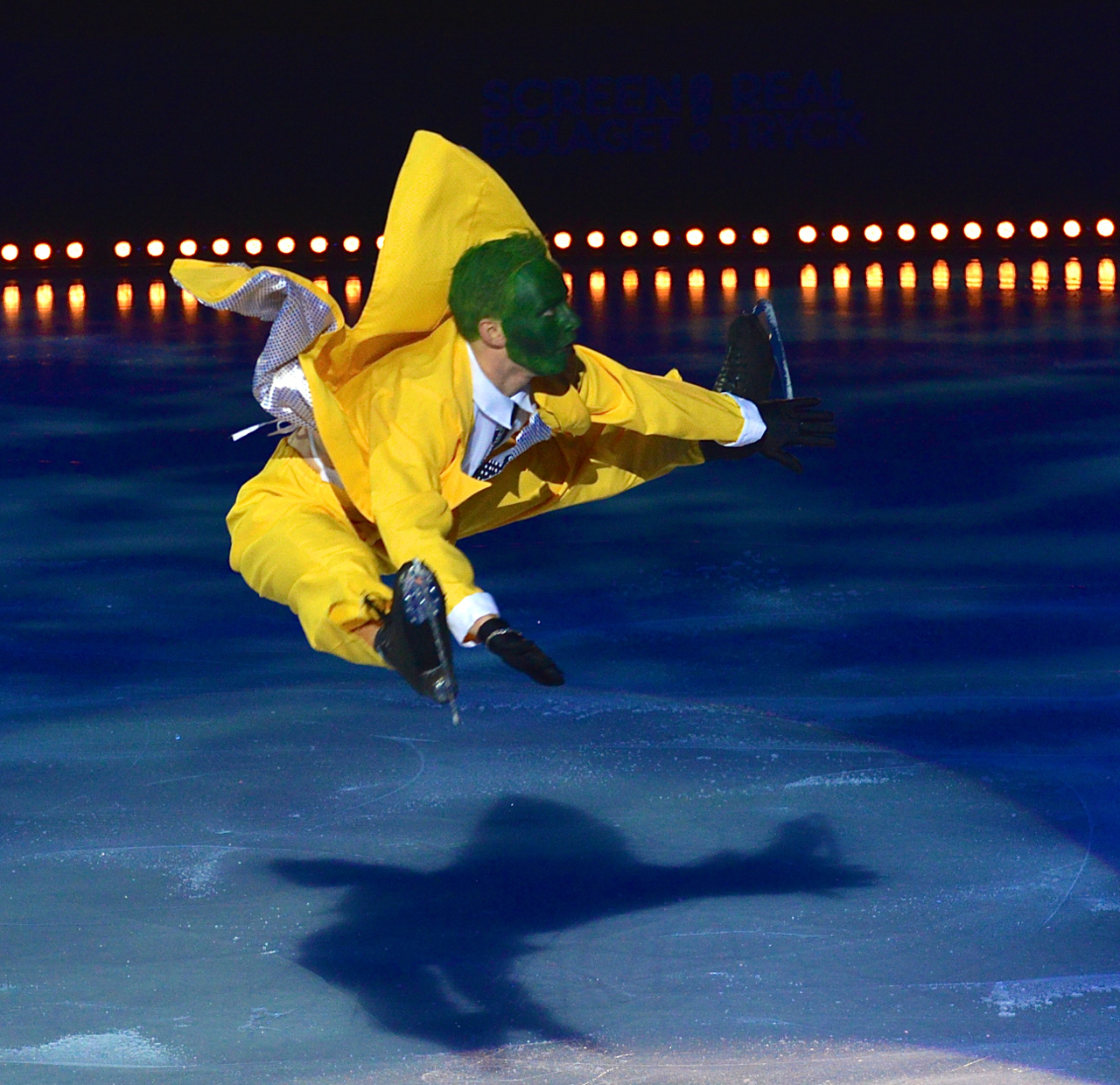 "Art on Ice" at the Globe Arena in Stockholm, March 13, 2014.